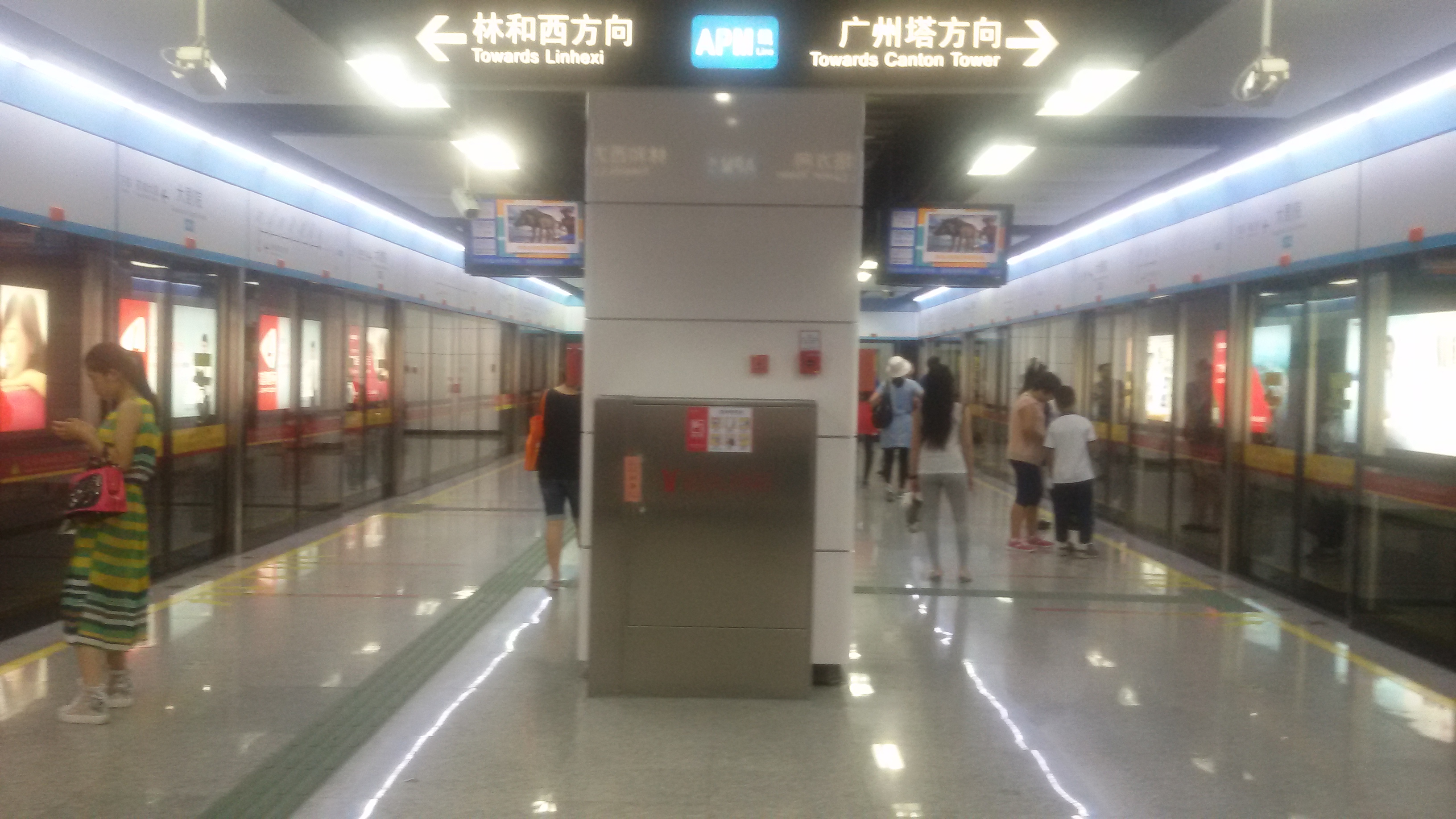 Station Platform for Guangzhou Opera House Station in Guangzhou Metro 粵語: 廣州地鐵，大劇院站嘅月台。